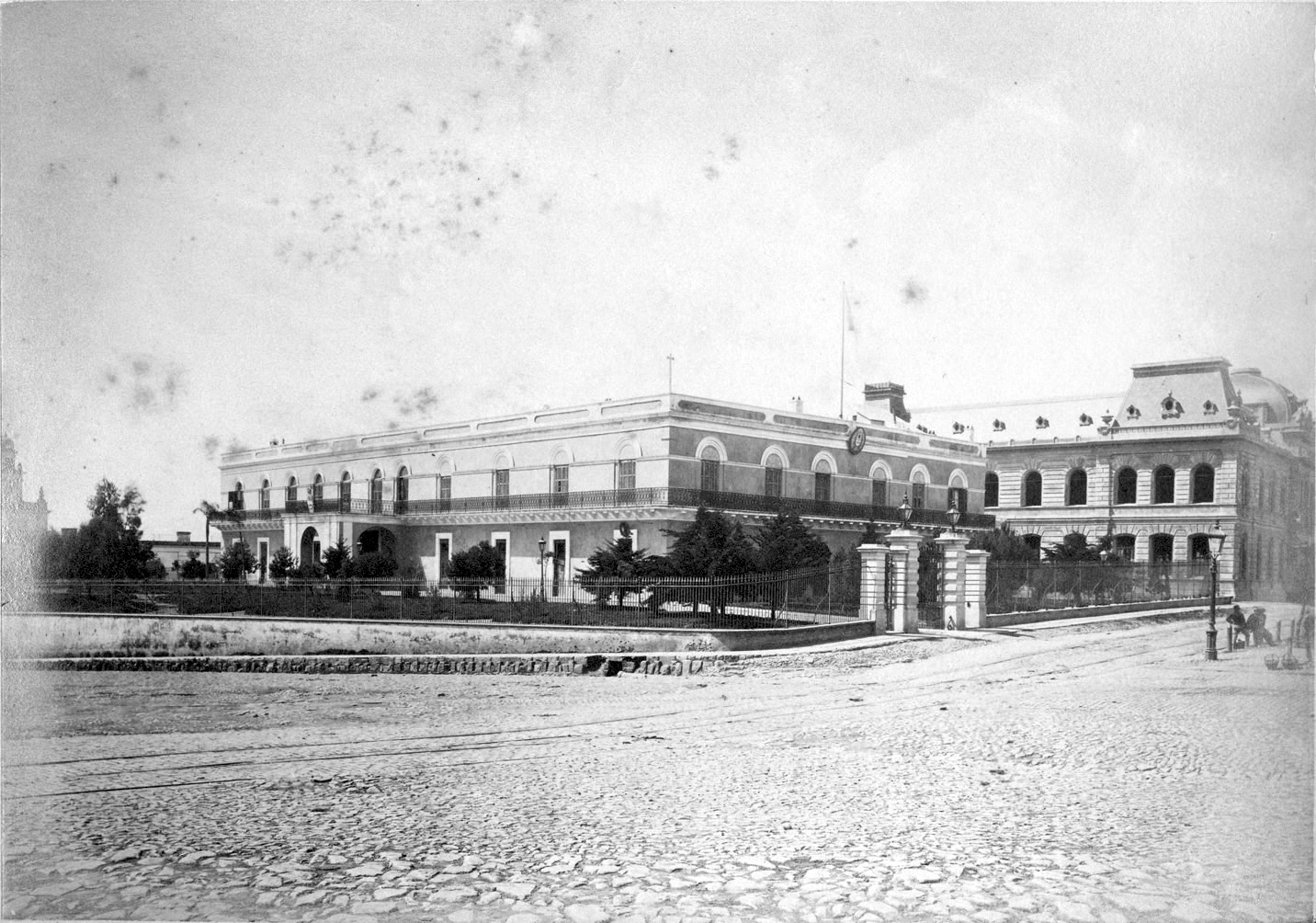 The old fort of Buenos Aires, seat of the Government of Argentina (at front). The fort would be demolished in the 1880s. At the back, the Post Office building (inaugurated in 1873), that would become the House of Government in 1882, remaining up to present days. It was nicknamed "Casa Rosada (Pink House)" due to it had been painted with a mix of animal blood and lime during the presidency of Domingo Sarmiento (1868-1874).